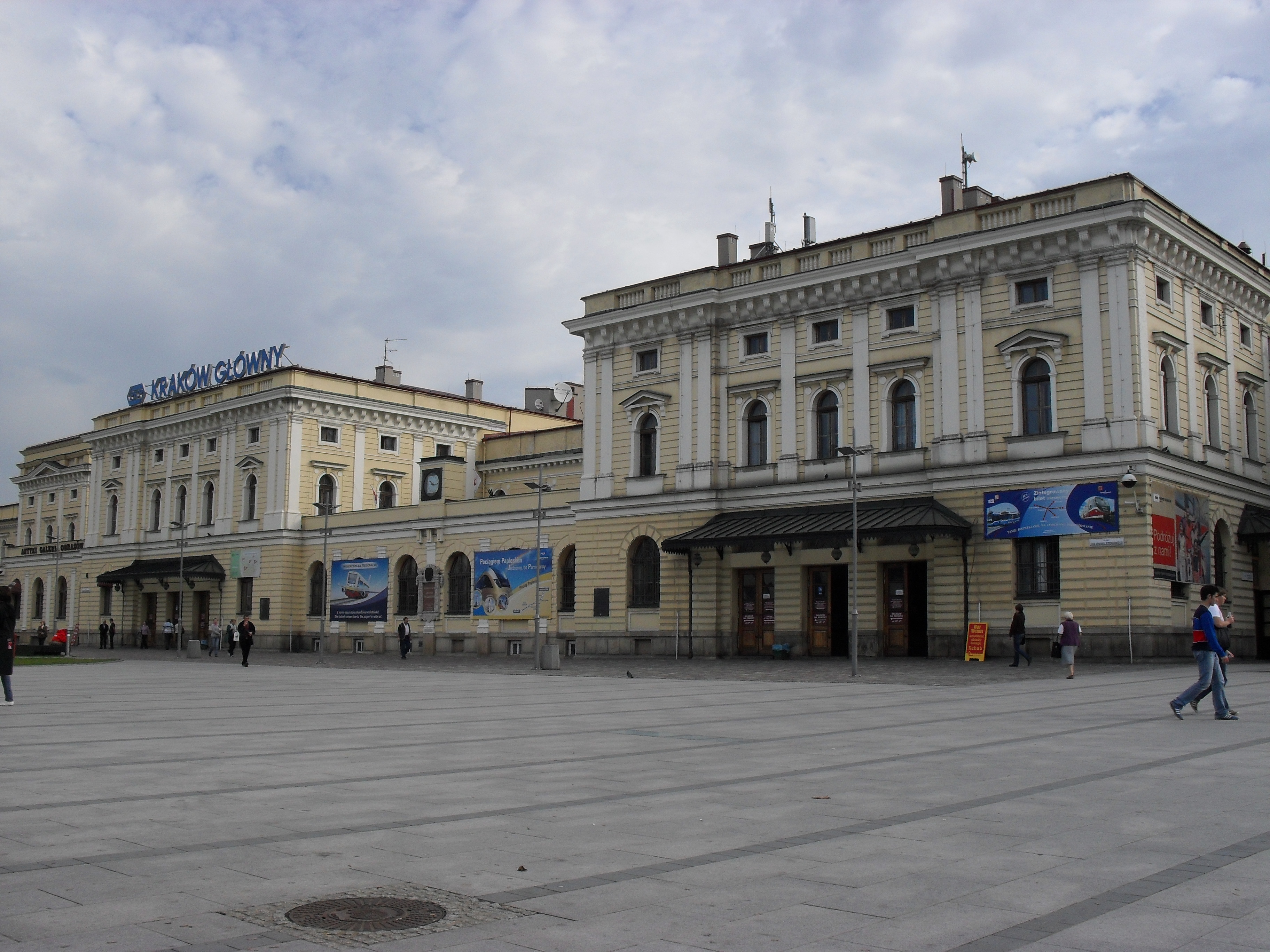 The exterior of Krakow Glowny old station, Poland.